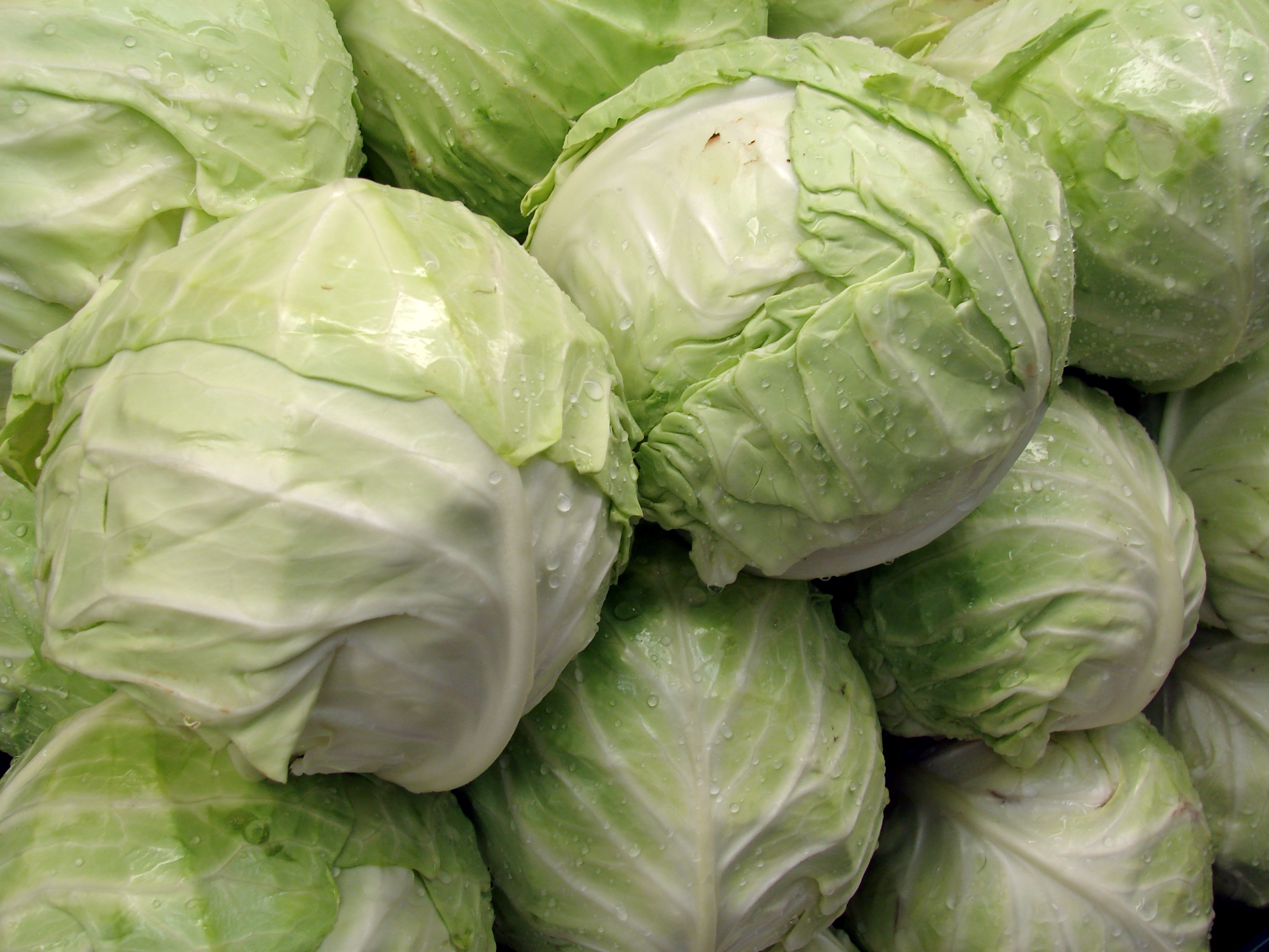 Brassica oleracea var. capitata (green). Location: Maui, Foodland Pukalani